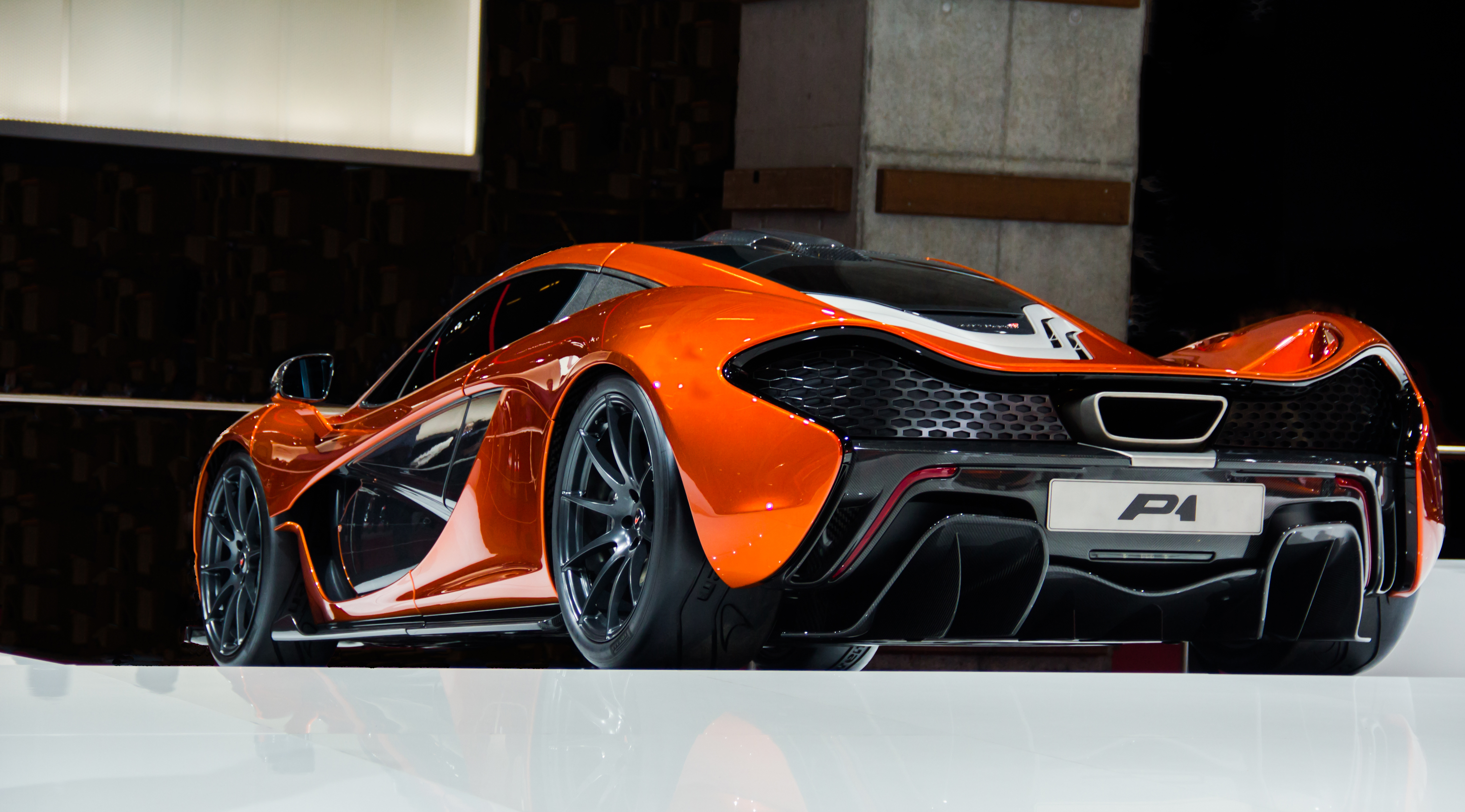 Amazing car specially from the back.